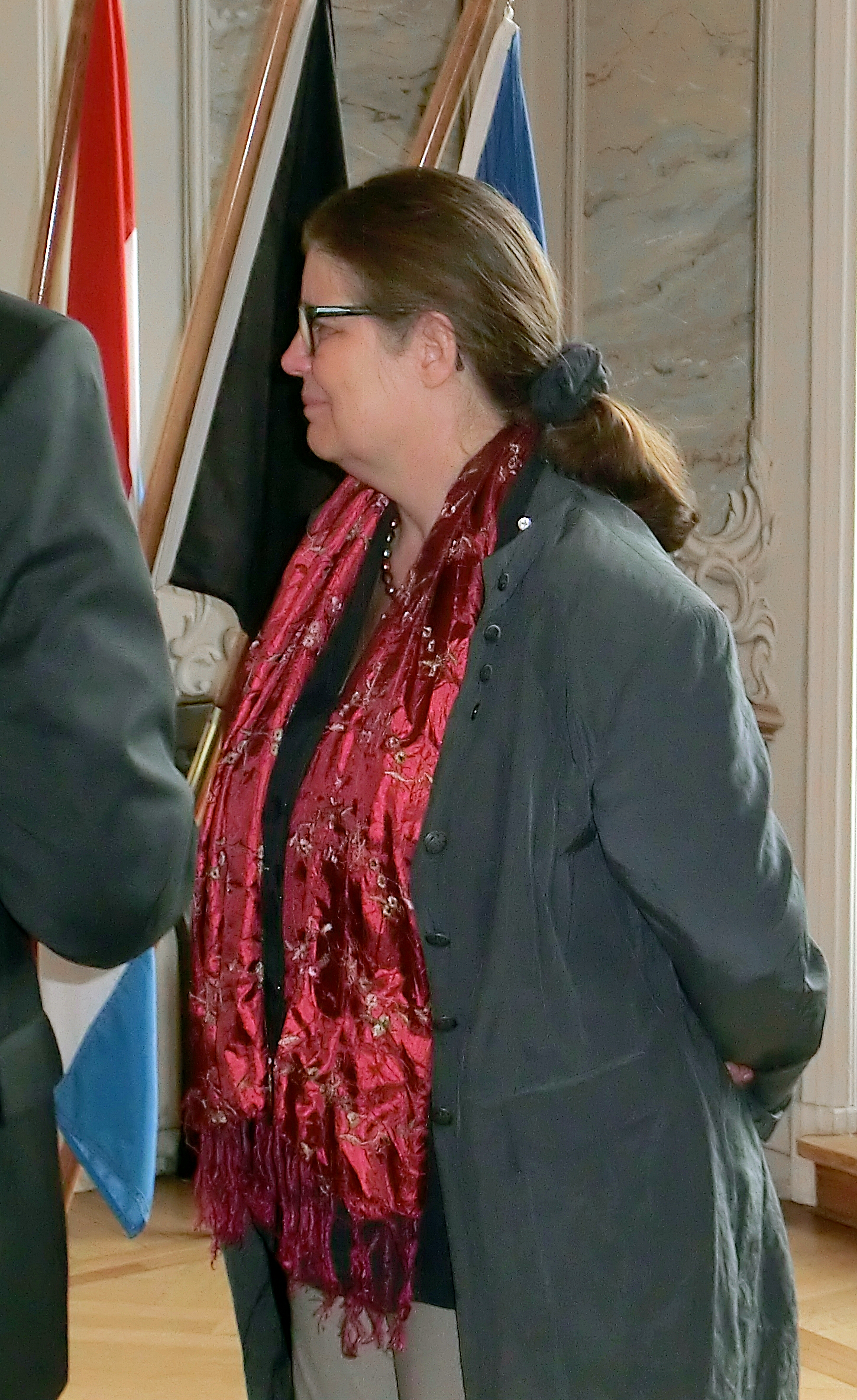 Angelika Birk, German politician (Bündnis 90/Die Grünen)